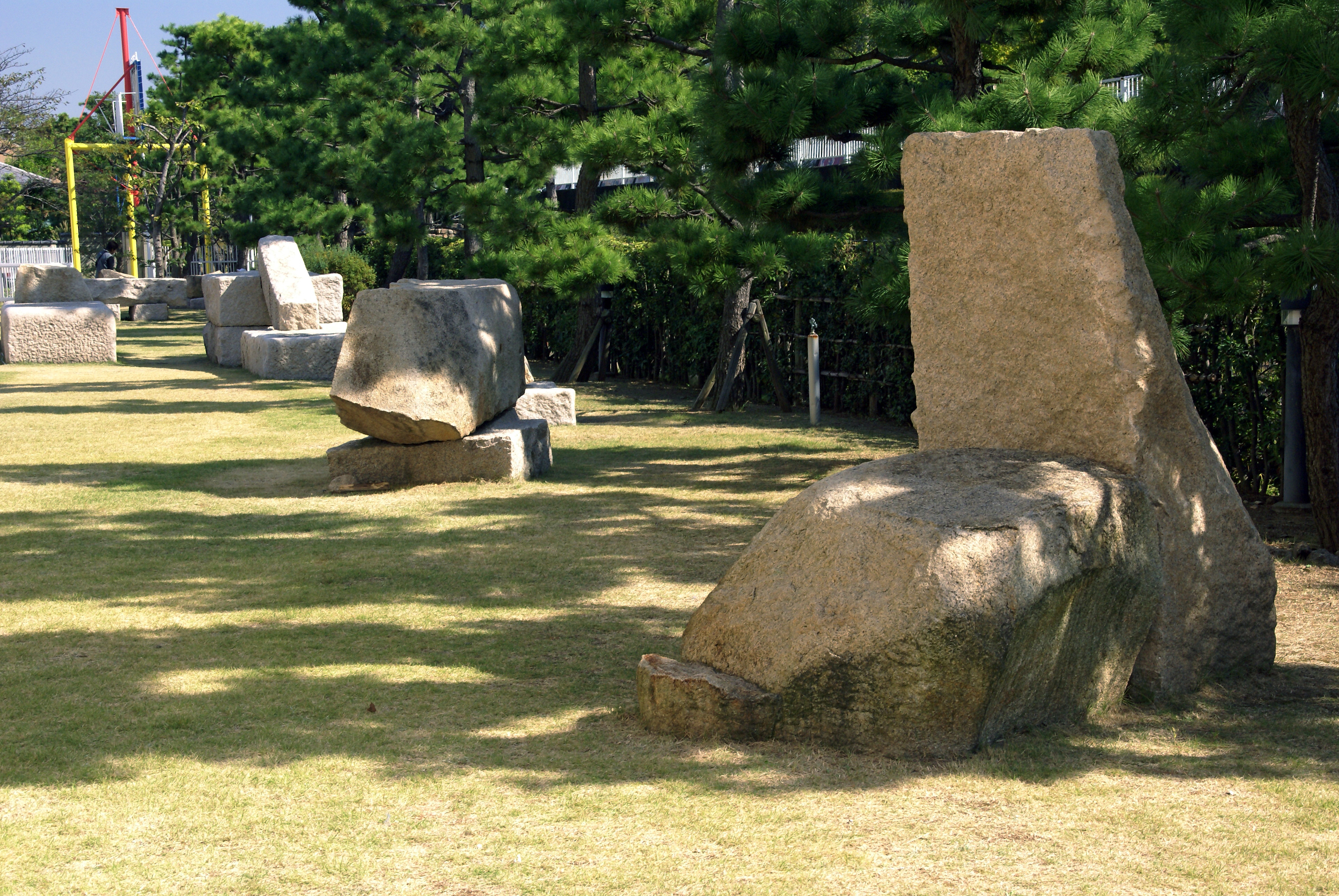 Ashiya City Museum of Art & History in Ashiya, Hyogo prefecture, Japan